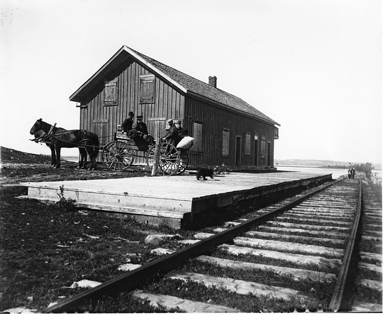 This image shows Harwood Station on the Cobourg and Peterborough Railway, as seen looking from the south to the north-northwest. On the right the rails run out onto the causeway that formed the first part of the bridge across Rice Lake. Tic Island, where the bridge proper started, can be seen in the distance. The causeway as seen in this image appears to be in bad repair, which suggests the photo was taken some time between 1861 when the bridge collapsed, and WWI when the rails were lifted and sent to Europe. The station appears to be abandoned, which suggests it was later during this span of time.